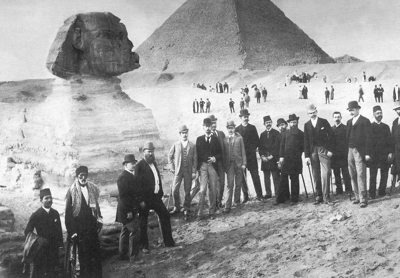 Tsarevich Nikolai Aleksandrovich (later Nicholas II) (fifth from left) during his trip in Egypt. Third from left Prince N. D. Obolensky, forth V. A. Baryatinsky, sixth Hereditary Prince Swedish and Norwegian general Erikson, seventh Greek Prince George.